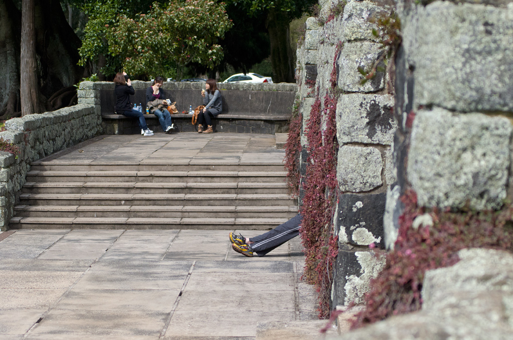 Cornwall Park Memorial Steps